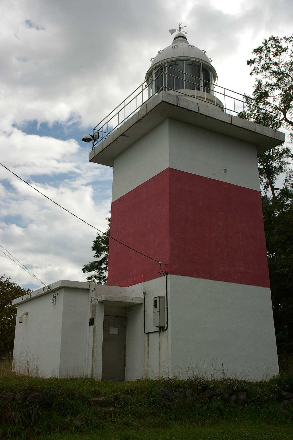 Mashike lighthouse, Mashike town hokkaido.